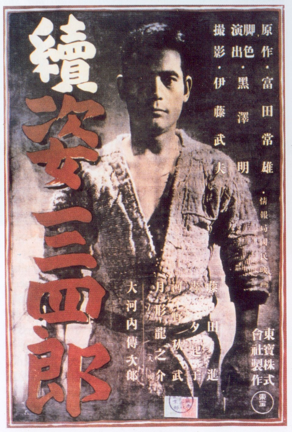 Movie poster for 1945 Japanese movie Zoku Sugata Sanshiro (Sanshiro Sugata Part 2).